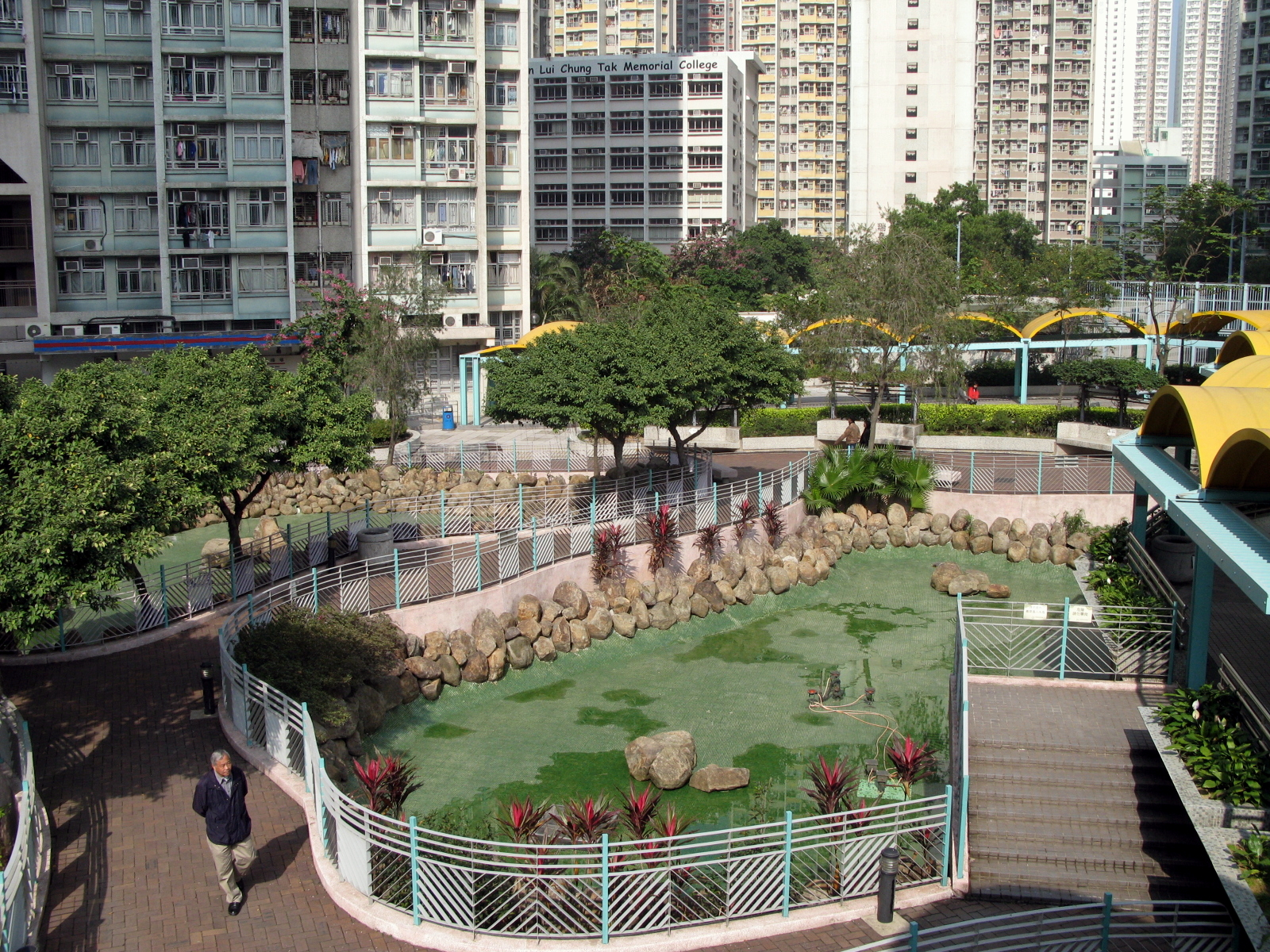 Tin Shui Estate Abandoned Pond